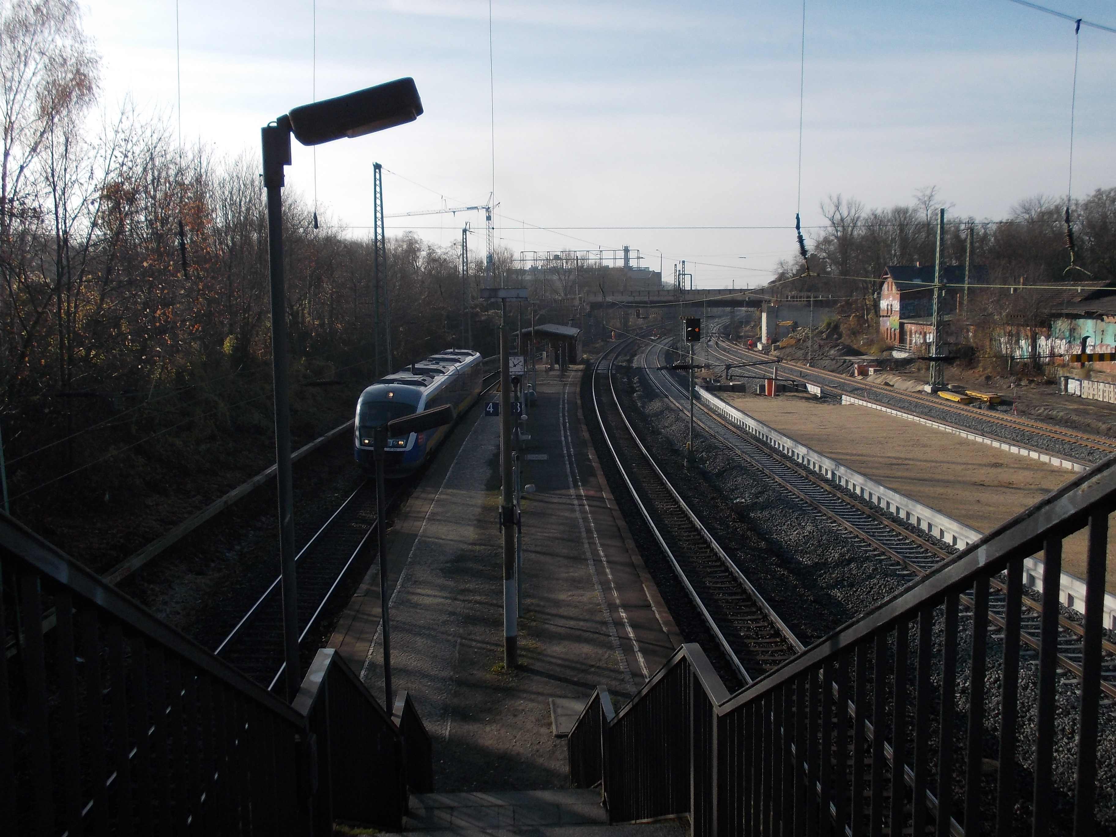 Leipzig-Connewitz train station in November 2012 (Leipzig, Saxony)